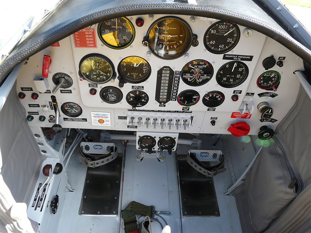 Cockpit photo of Yak-50 VH-DZY based at Bankstown, NSW, Australia. Source: D. Lian